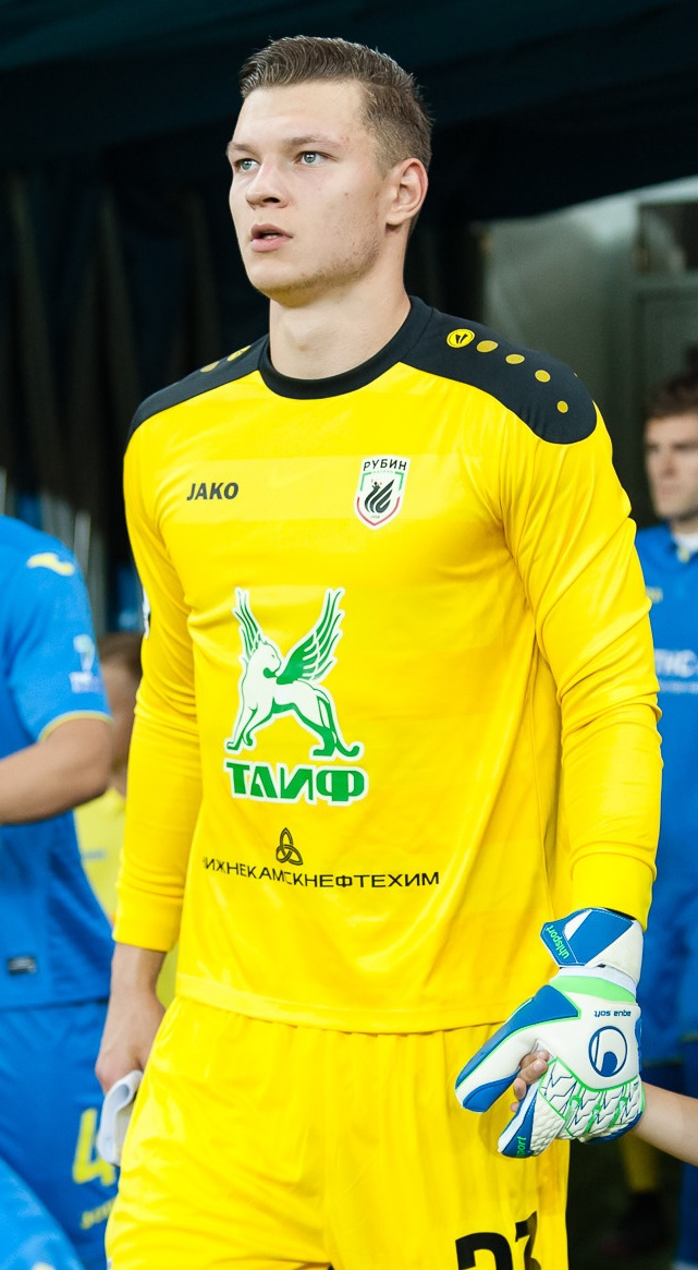 Ivan Konovalov with FC Rubin Kazan before the game against FC Rostov.